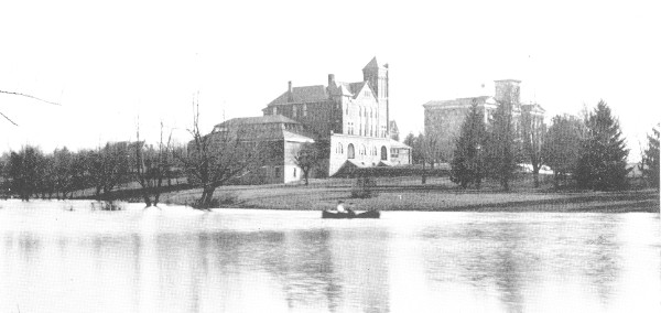 Photo of Barker Hall, also known as Alumni Hall, on the University of Kentucky campus. The Main Building is visible to the right, and the foreground is dominated by a lake, where the Student Center was built in 1937. This photo was originally taken sometime after 1901, when Barker Hall was built, and before 1919, when the tower on the Main Building was removed leaving a lower gabled roof.